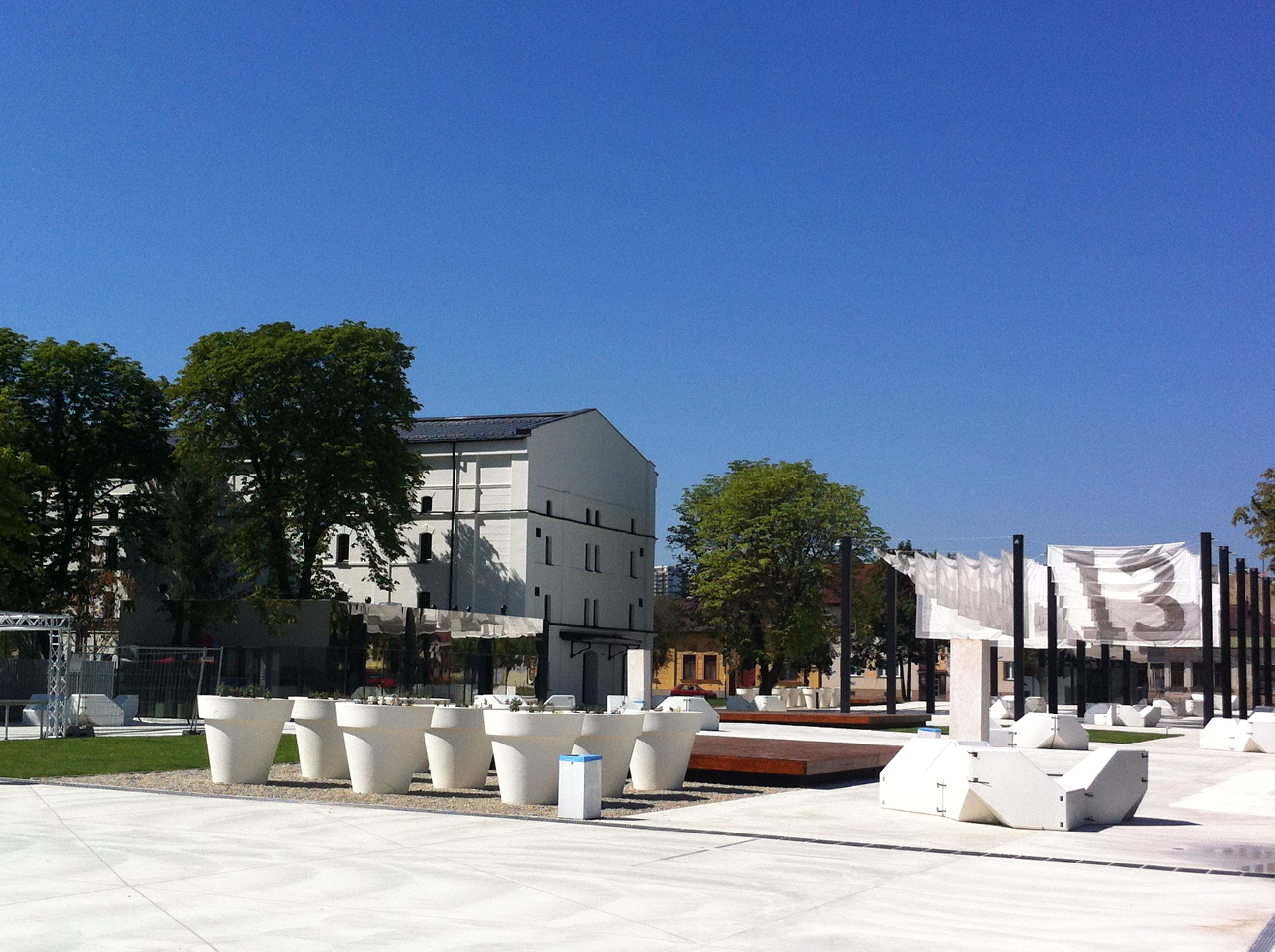 Kulturpark in Košice, Slovakia